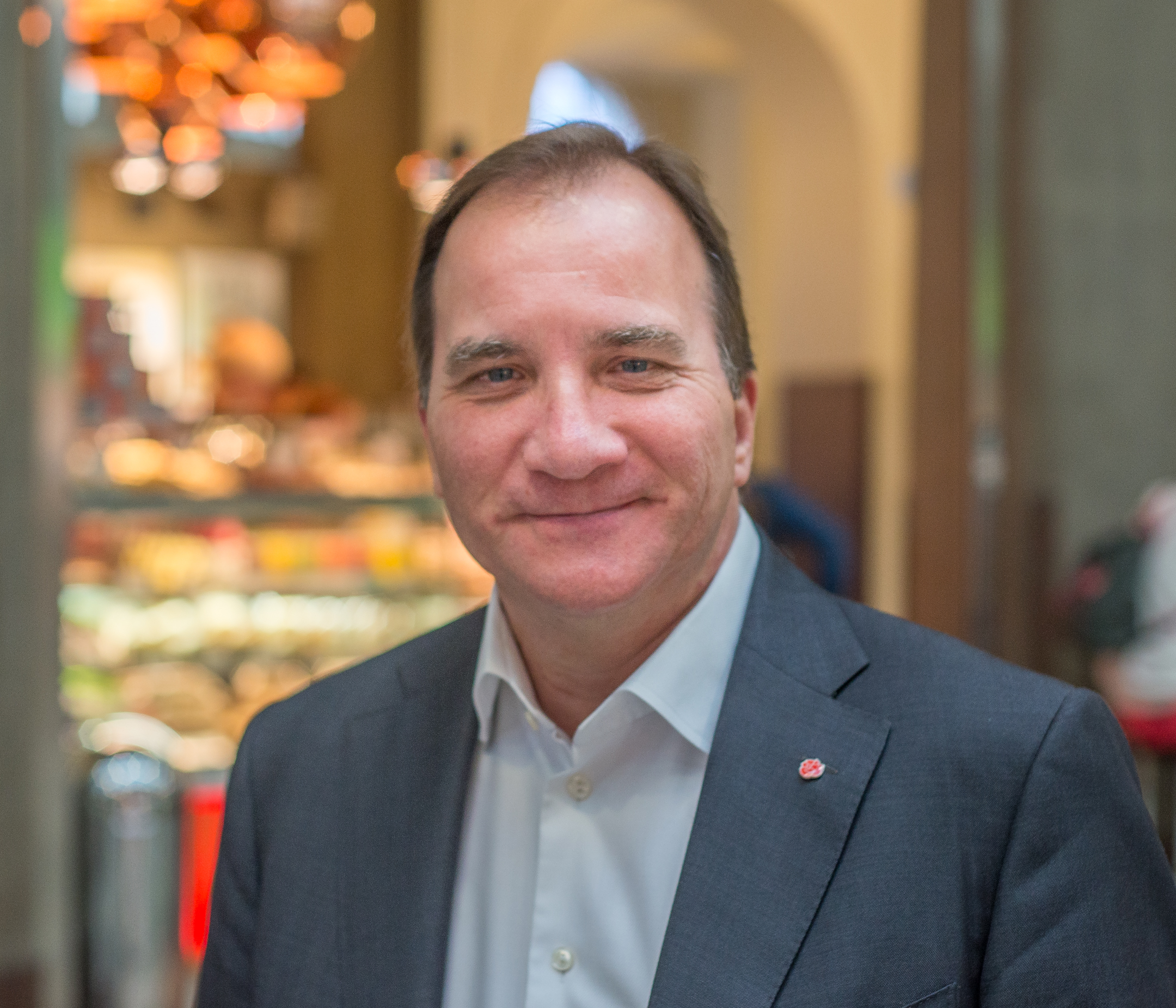 Stefan Löfven at Stockholm central the day before the Swedish general election.